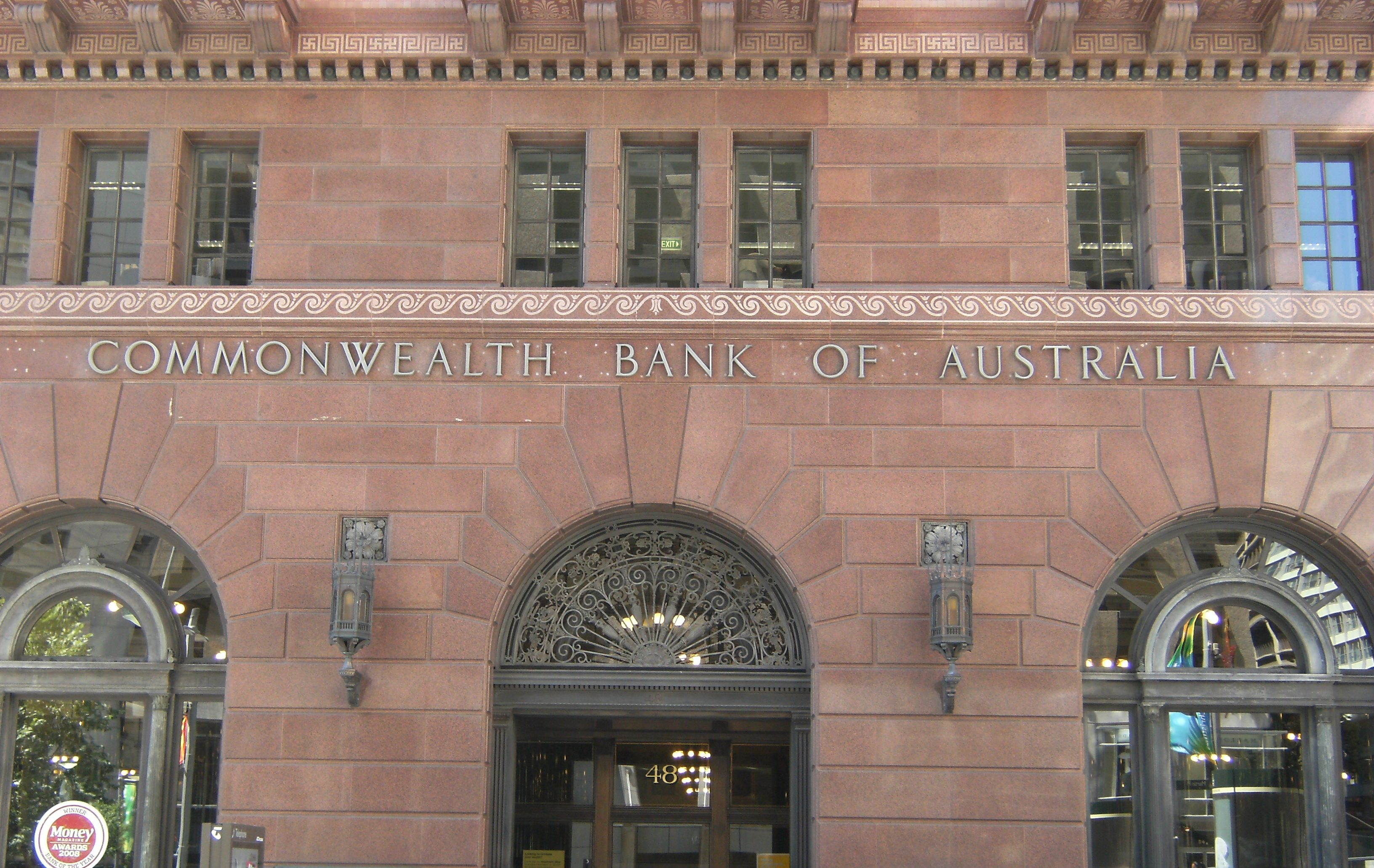 CBA sign Martin Place